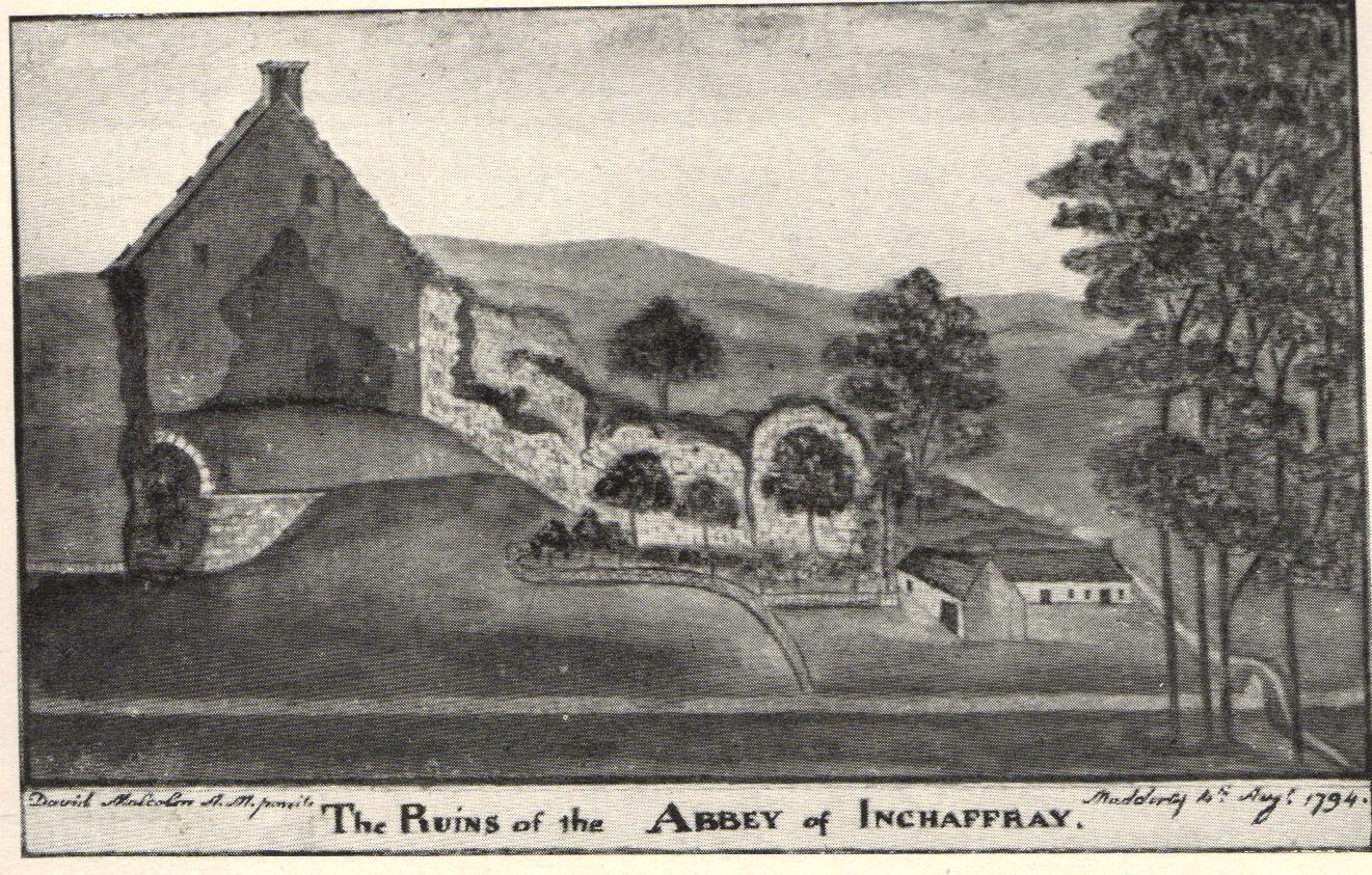 A illustration of the ruins of Inchaffray Abbey, made in 1794; scanned from Lindsay, William Alexander, Dowden, John & Thomson, John Maitland (eds.), Charters of Inchaffray Abbey, 1190-1609, Publications of the Scottish History Society, Volume LVI, (Edinburgh, 1908), illus facing p. xxiii.